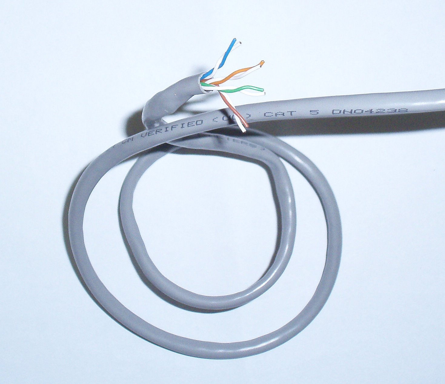 A Category 5 cable.